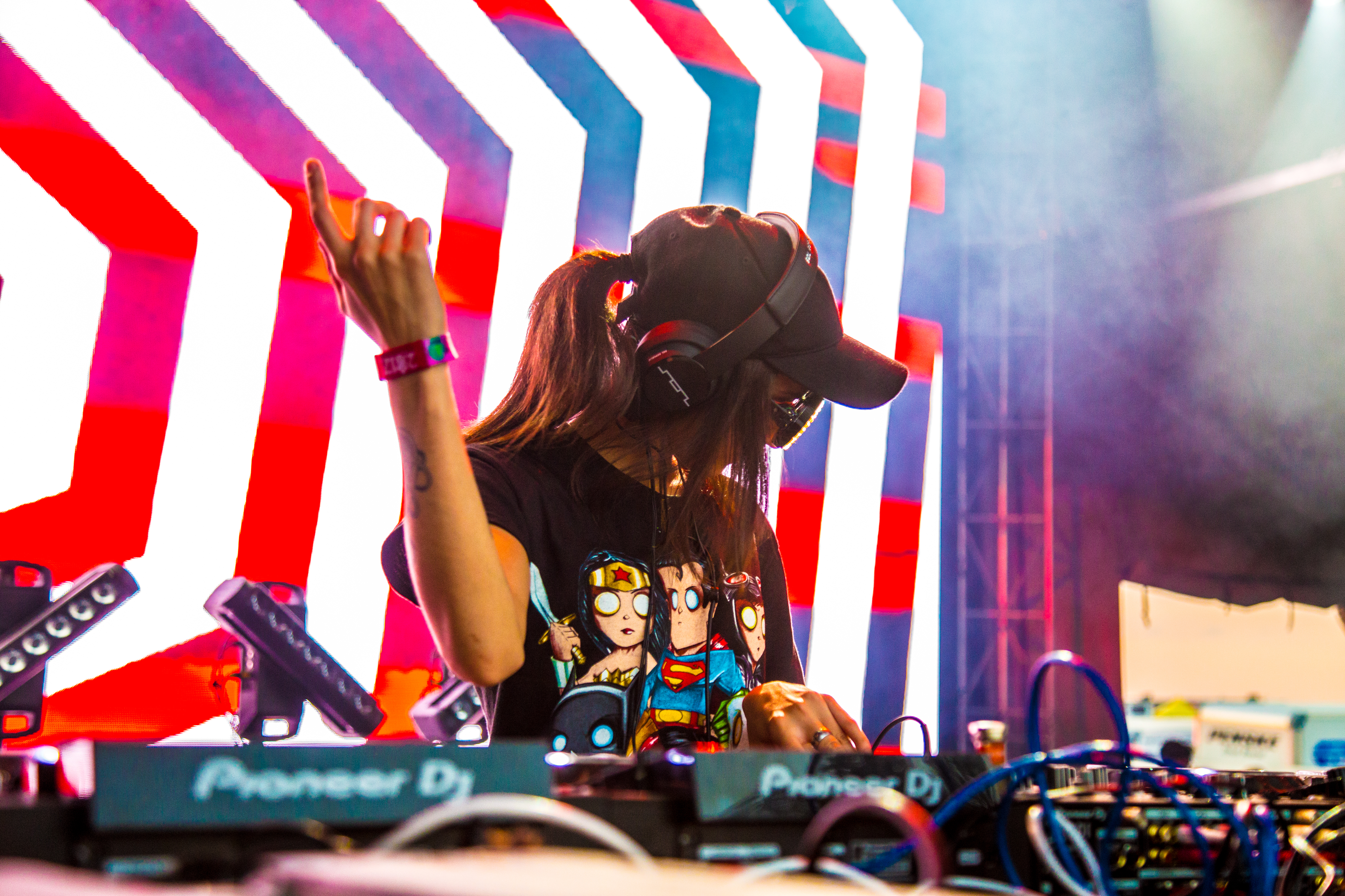 Rezz performs at the 2017 Bonnaroo Music & Arts Festival